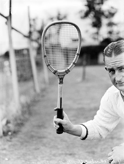 Australian tennis player Jack Crawford holding his characteristic flat-topped racket (New South Wales).